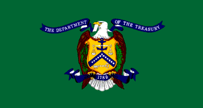 Flag of the United States Department of the Treasury. Official specifications can be found here, and an actual photograph of the flag can be found here.